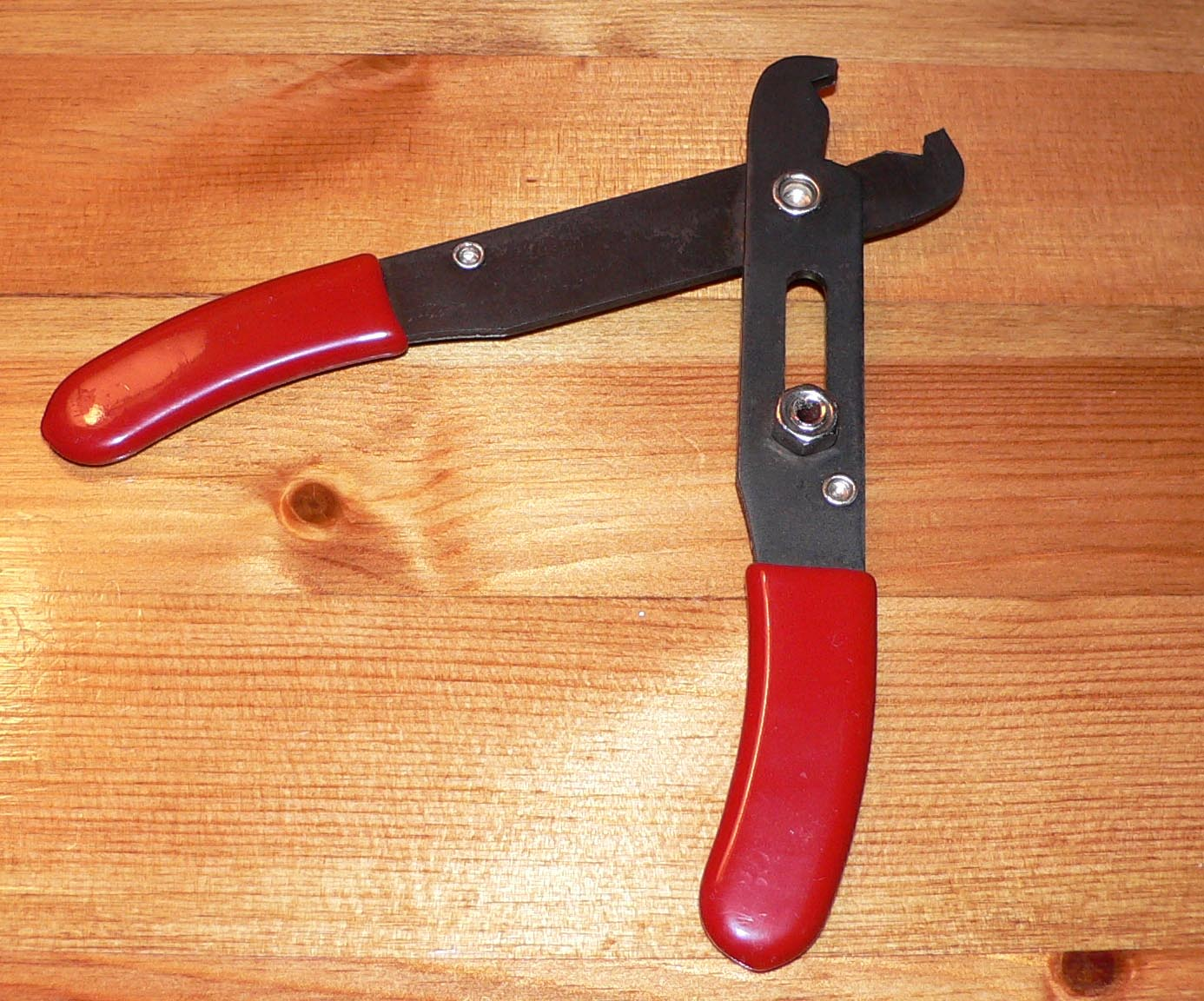 A wire stripper Taken by →Raul654 on December 26, 2004.